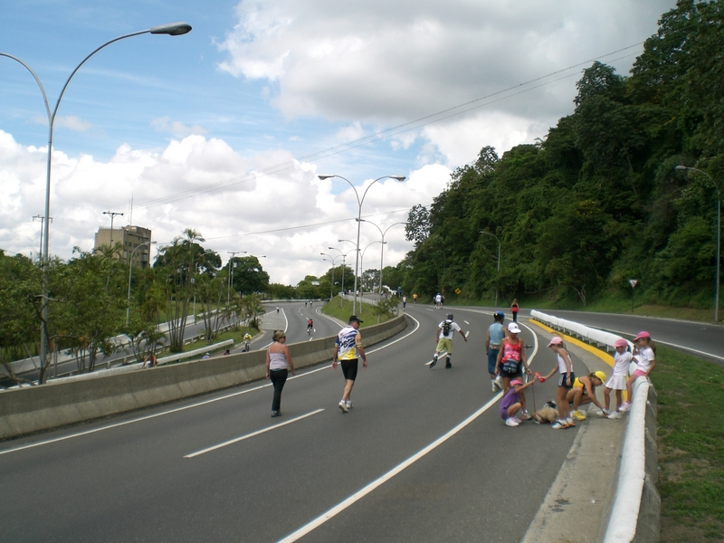 Sunday morning in Boyacá avenue in Caracas.